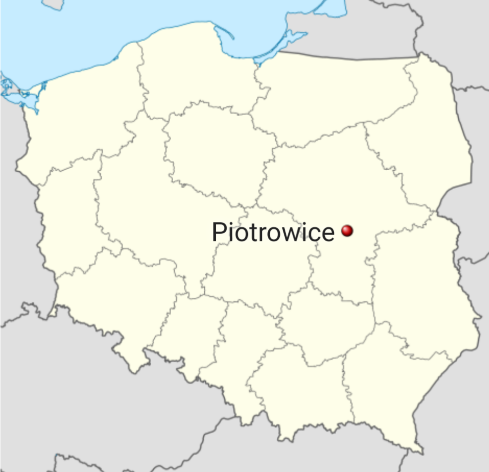 Location of Piotrowice village